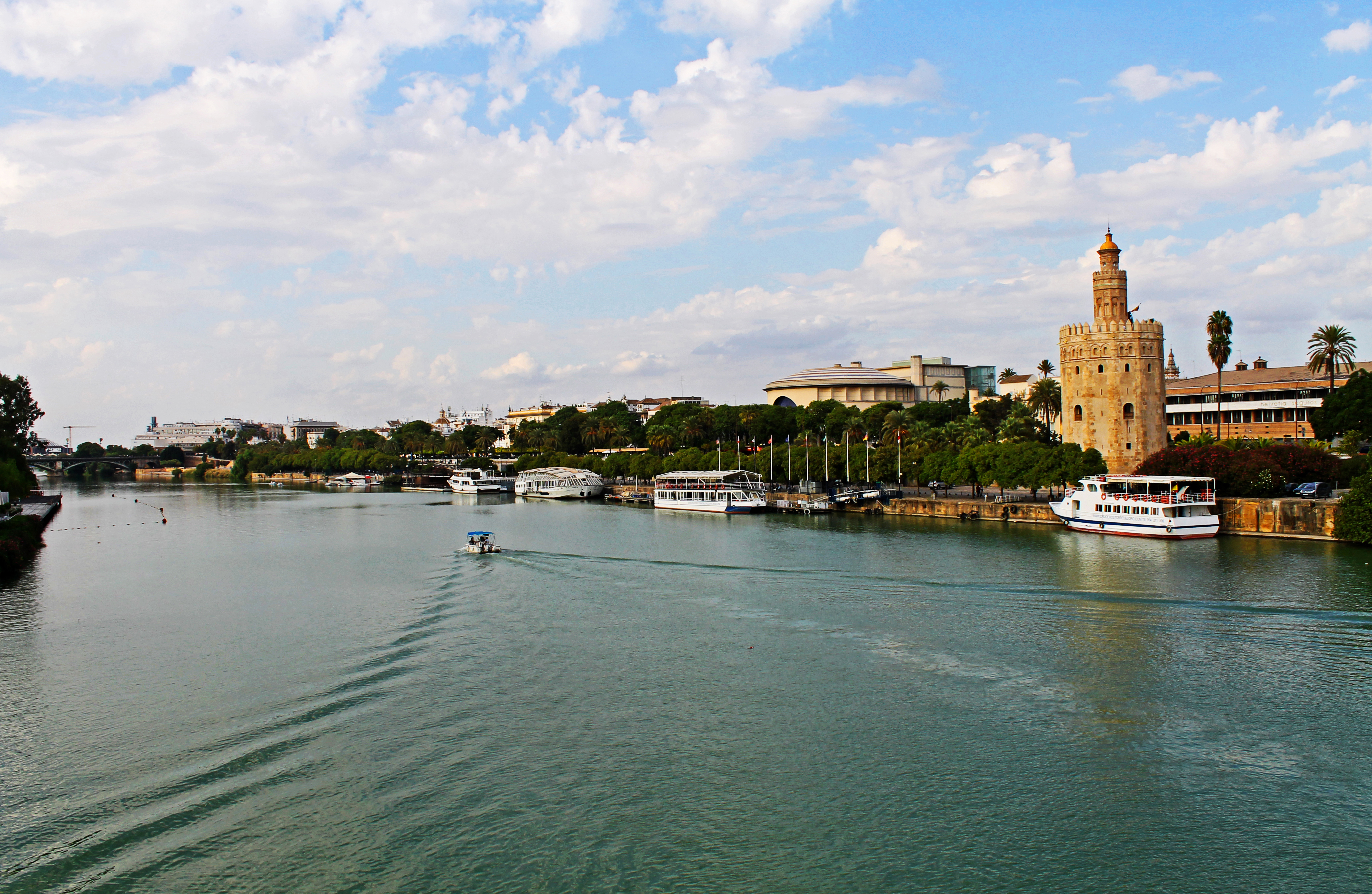 View of Canal de Alfonso XIII in Seville, on the right is the famous Torre del Oro.